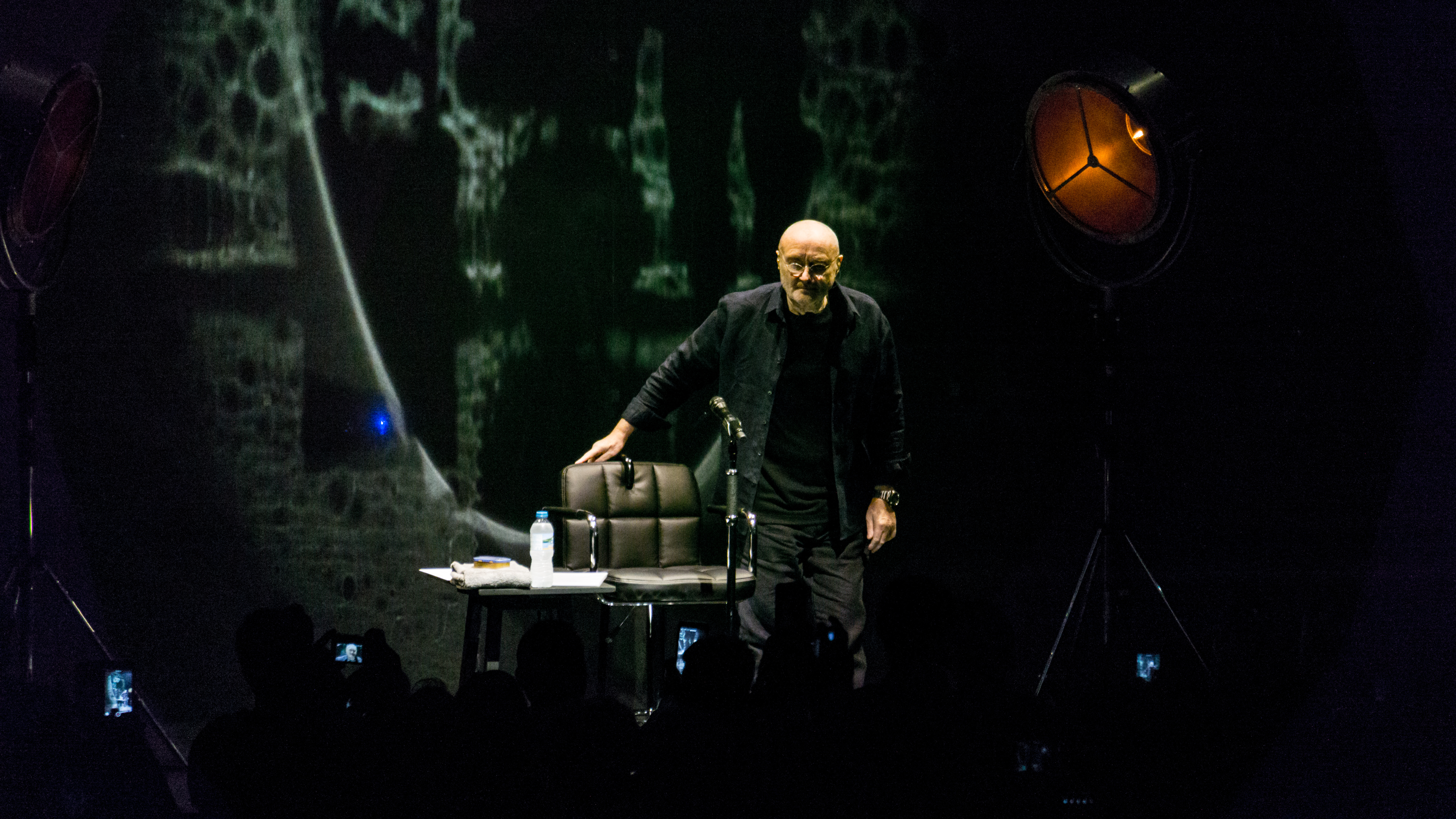 PhilCollinsRAH070617